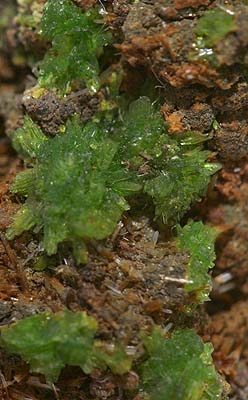 Johannite Locality: Malwine Shaft, Frohnau, Annaberg-Buchholz, Erzgebirge, Saxony, Germany (Locality at ) Size: thumbnail, 3.5 x 2 x 1.7 cm Johannite This is simply oustanding for the species, among the very best i am told. It is also quite beautiful! Johannite is a very rare uranium mineral